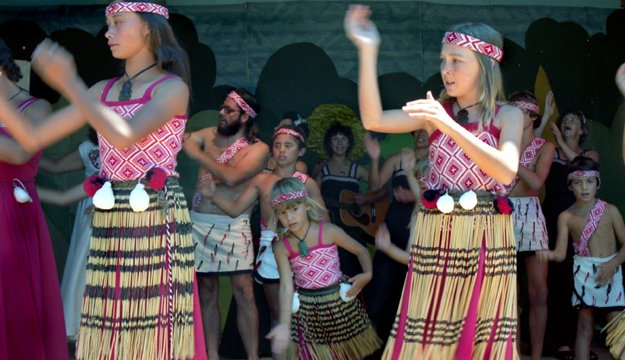 Image (photograph) taken by Official Nambassa Photographer and uploaded by User:en:Mombas 02:51, 10 July 2006 (UTC)). 02:44, 10 July 2006 (UTC) , Nambassa dot com Terms of Use: 1/ All users of this image are required to attribute this work to "Nambassa Trust and Peter Terry" and the URL: " " is to accompany all use. 2/ Attribution. You must attribute the work in the manner specified by the author or licensor. 3/ For any reuse or distribution, you must make clear to others the license terms of this work. Statement by Nambassa Trust and Peter Terry